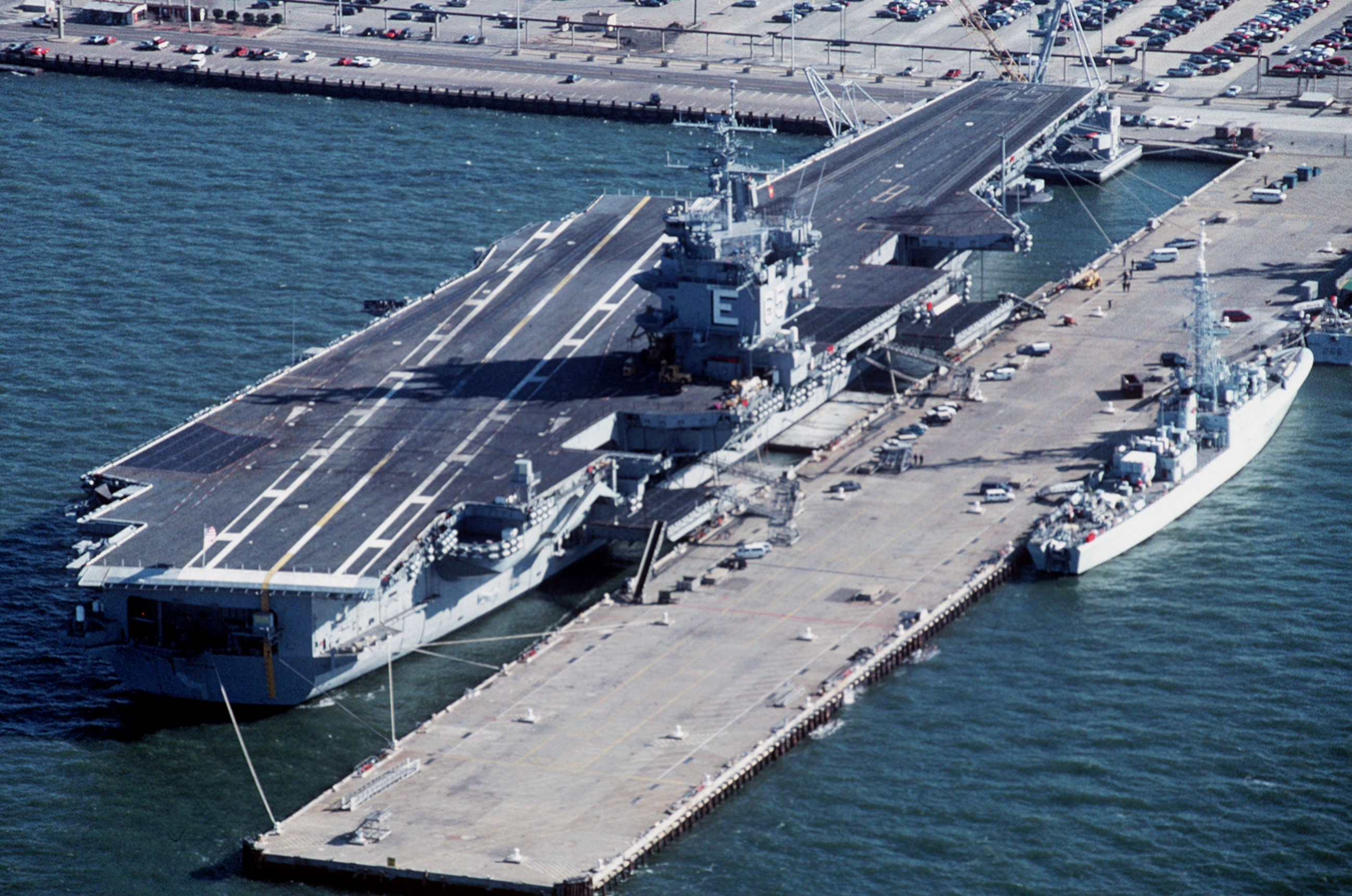 The U.S. Navy aircraft carrier USS Enterprise (CVN-65) tied up to the north side of pier 11 at Naval Station Norfolk, Virginia (USA), in 1995. The Canadian frigate HMCS Terra Nova (DDE-259) was making a port visit and is tied up on the south side.